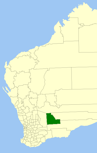 Location of the Local Government Area in Western Australia